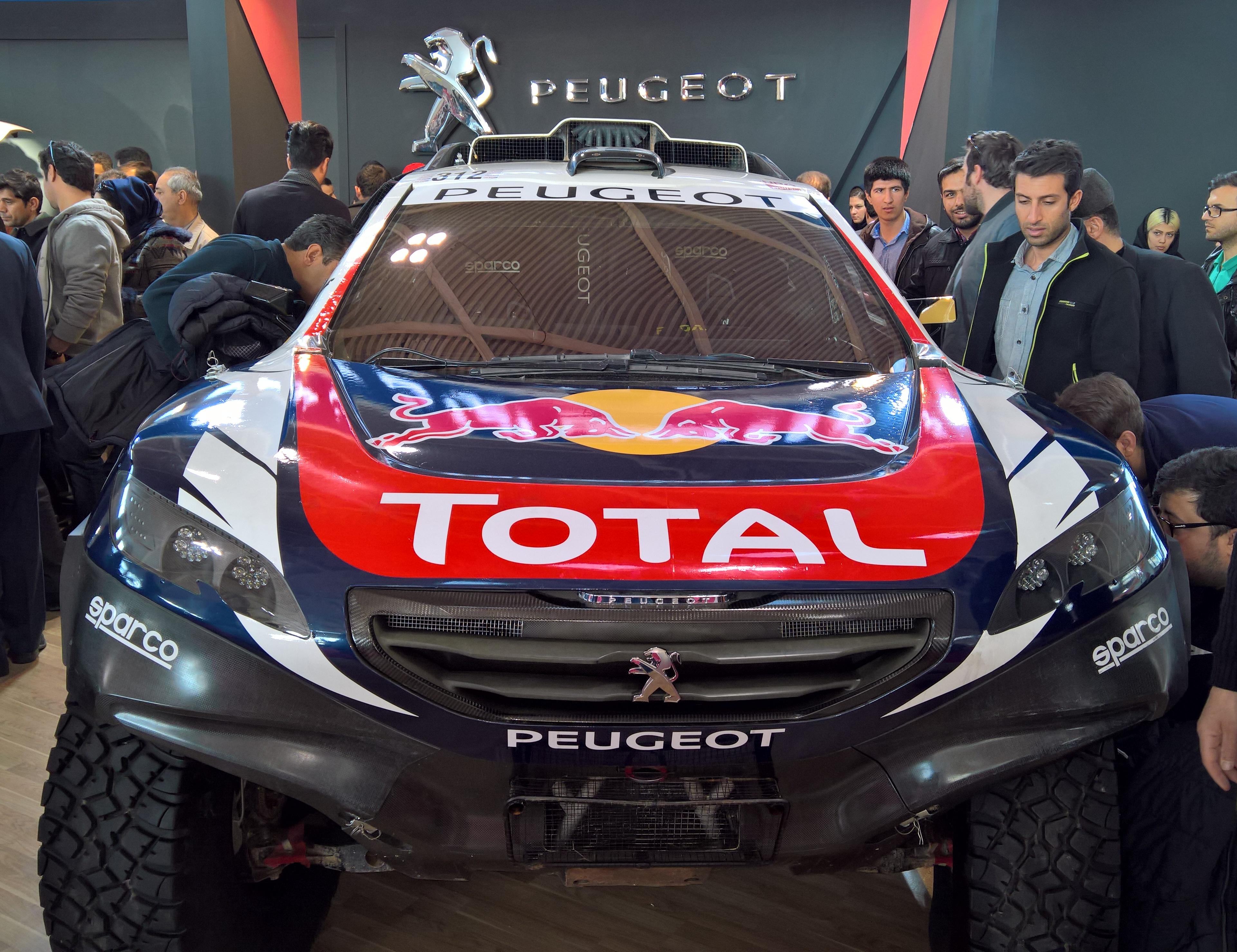 Peugeot 2008DKR in Tehran motor show, February 2017